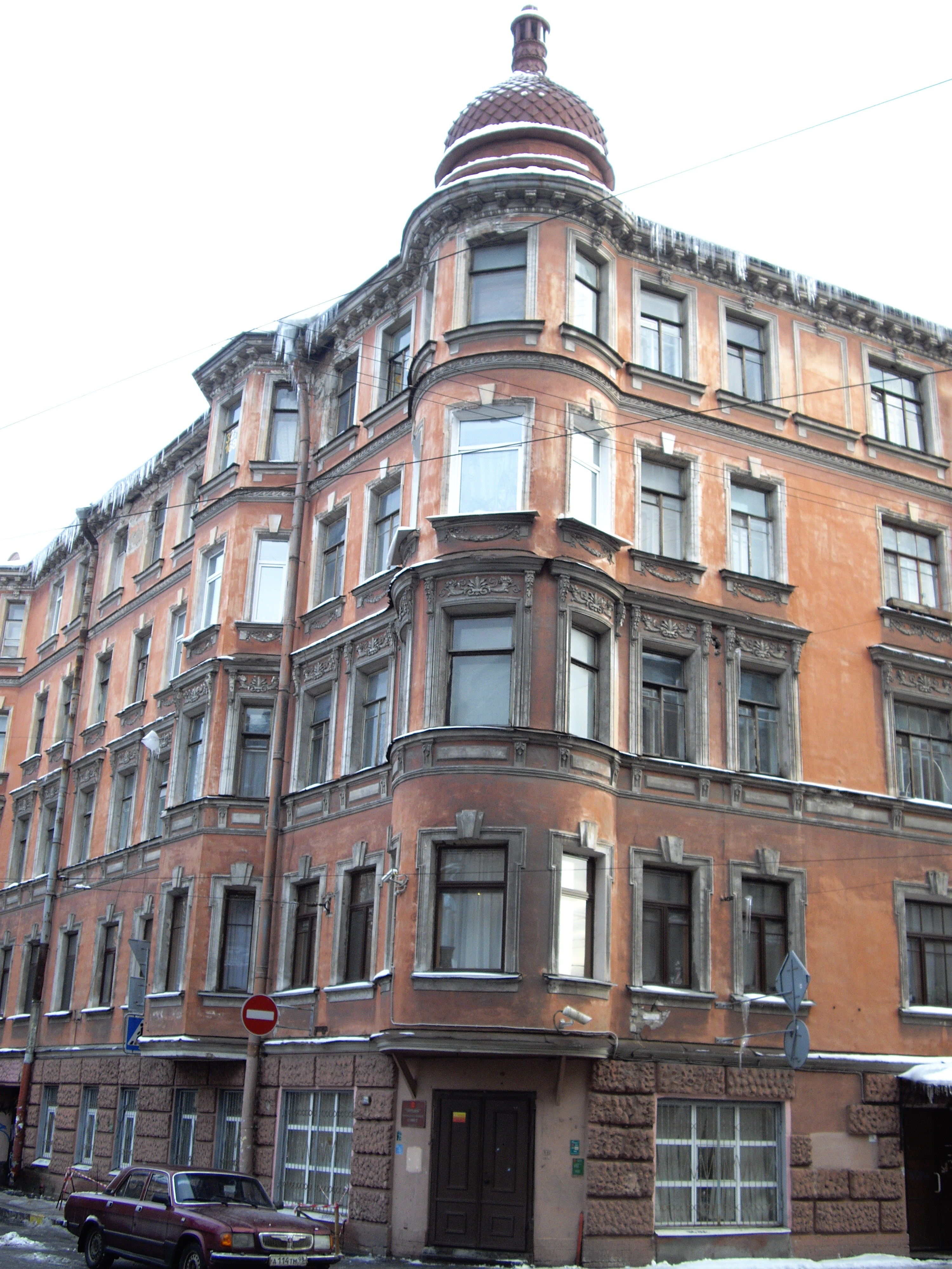 Kronverkskaya Street, corner of Bolshaya Monetnaya Street (Saint Petersburg, Russia). Architect Karl Koch, 1911.